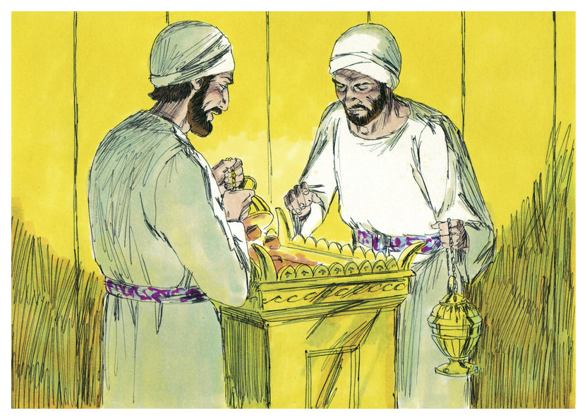 Biblical illustration of Book of Leviticus Chapter 10